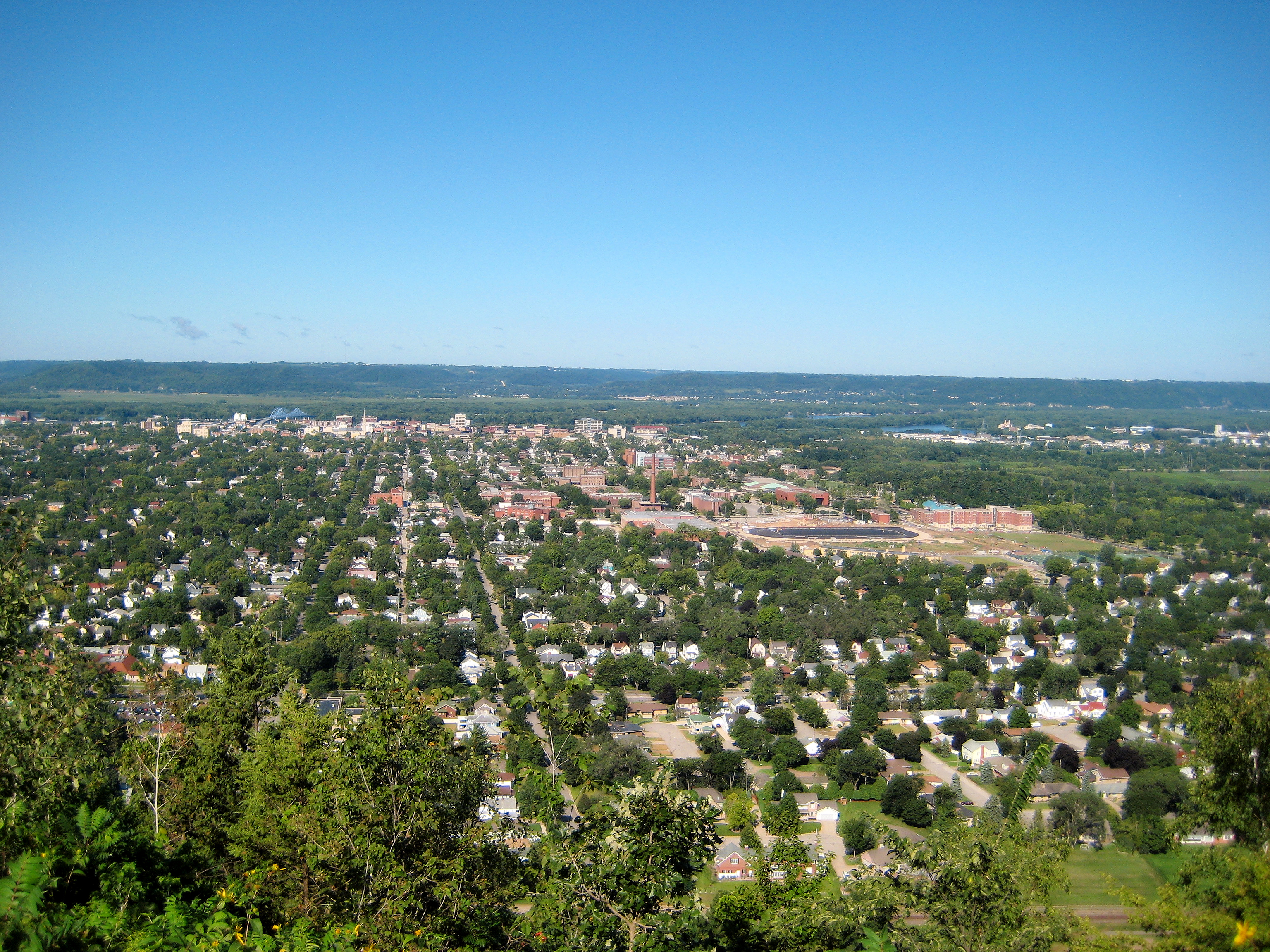 Overlooking La Crosse, Wisconsin from Grandad Bluff